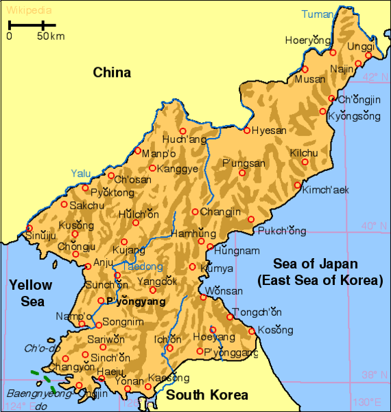 This is a map of North Korea showing major settlements. International disputed names (Yellow Sea, Sea of Japan) were chosen in that way to fit the rules of English Wikipedia.